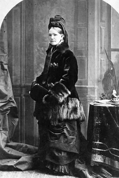 photograph of Harriet Clench This Canadian work is in the public domain in Canada because its copyright has expired due to one of the following: 1. it was subject to Crown copyright and was first published more than 50 years ago, or it was not subject to Crown copyright, and 2. it is a photograph that was created prior to January 1, 1949, or 3. the creator died more than 50 years ago.